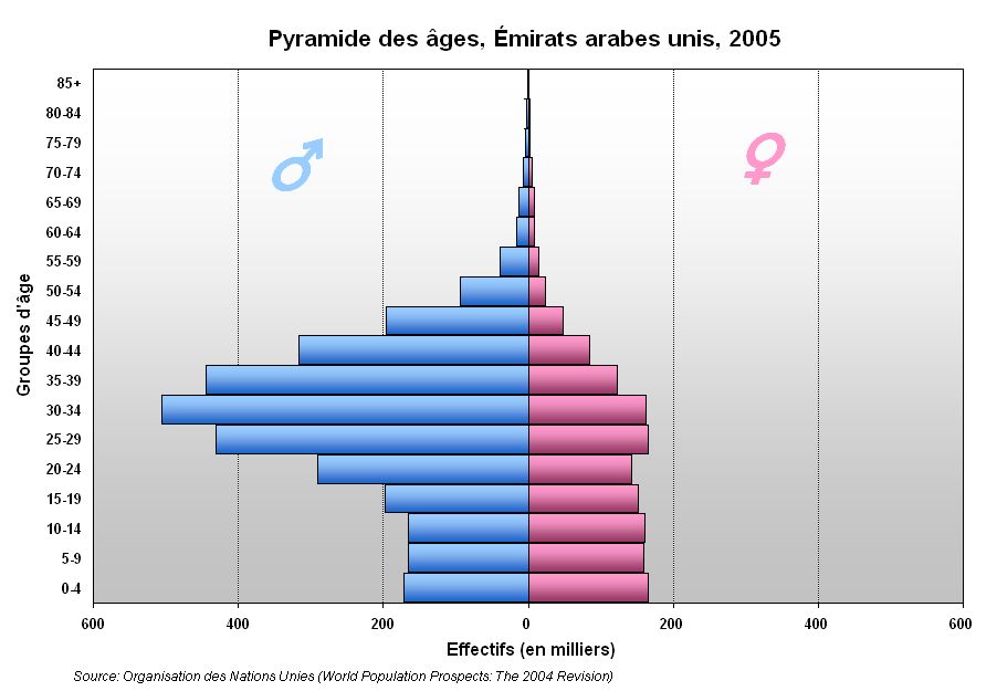 United Arab Emirates Population pyramid, 2005